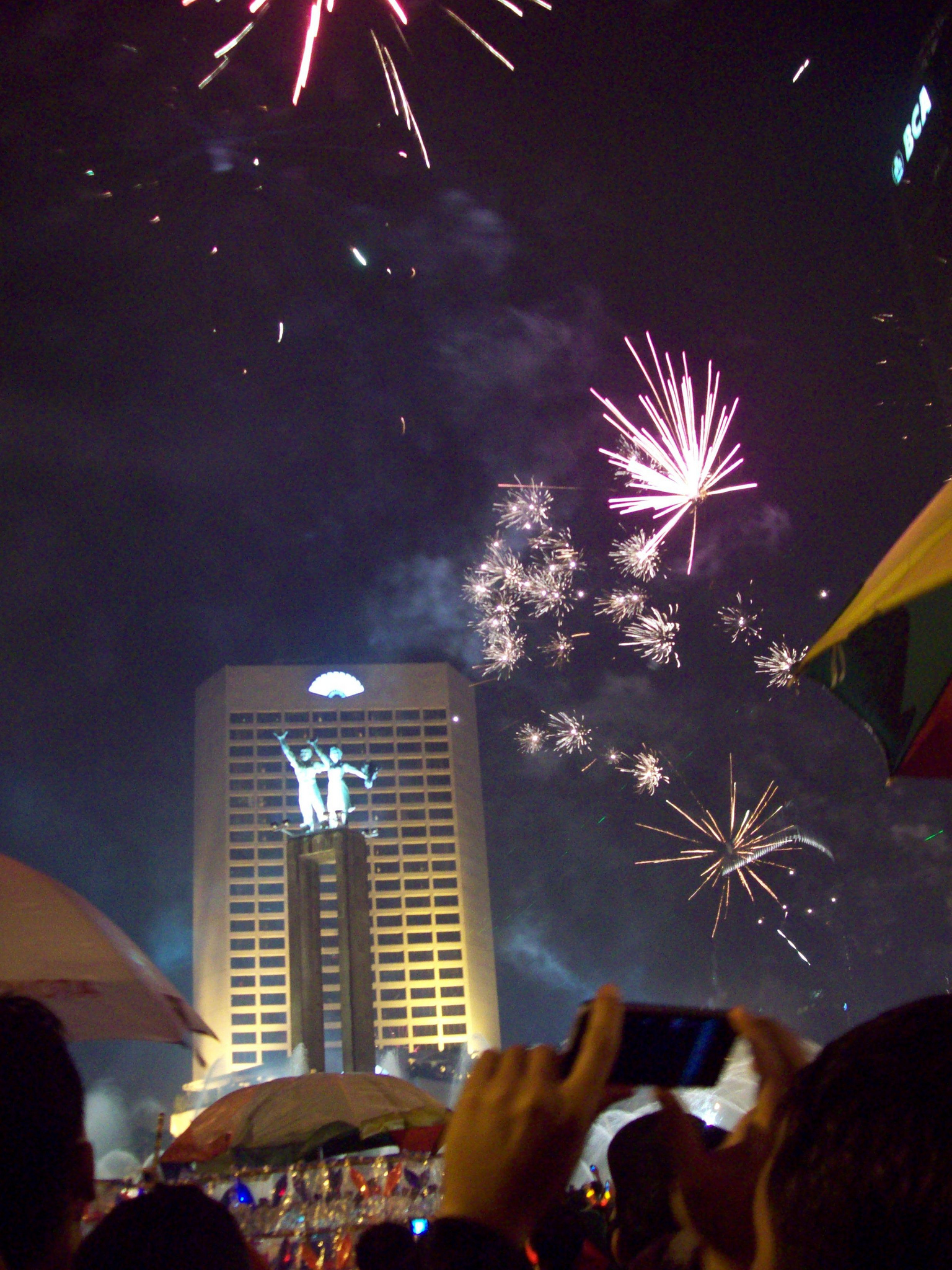 Fireworks at Bundaran Hotel Indonesia, Jakarta. Crowded, raining, lots of people and their smart phones, DSLRs, random loud noises, shouts, cracks and bangs. It is the first car free night event in Jakarta.